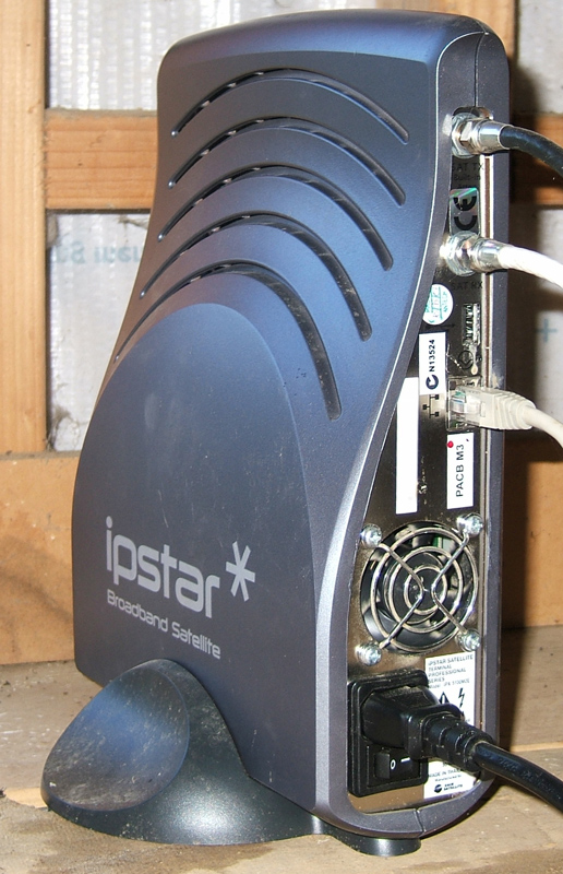 ipstar IPX-5100M2E CPE Terminal (USB/LAN) rear view.